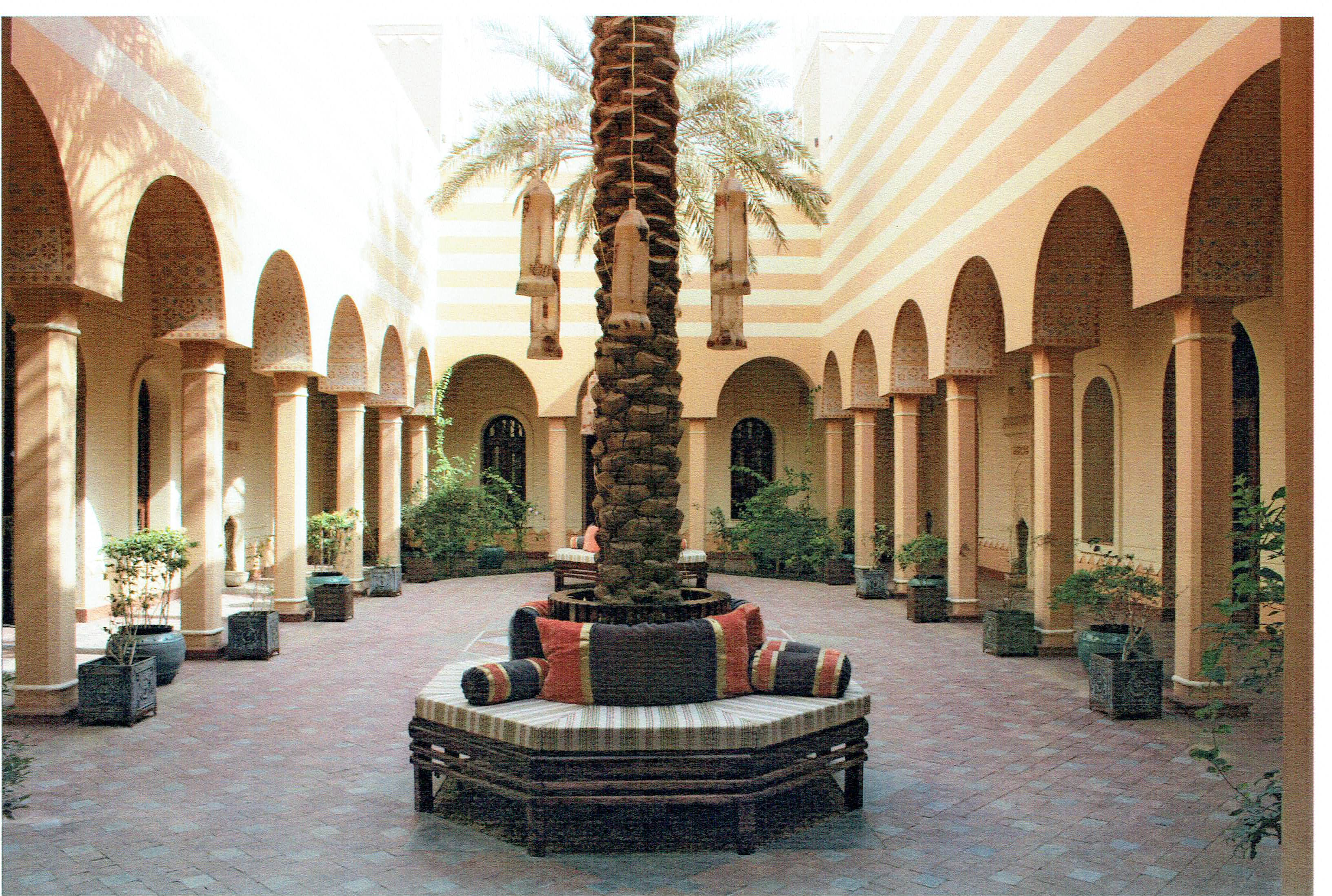 'Seaside Chalet' private residence in Kuwait designed by Dr. Basil Al Bayati in 1992